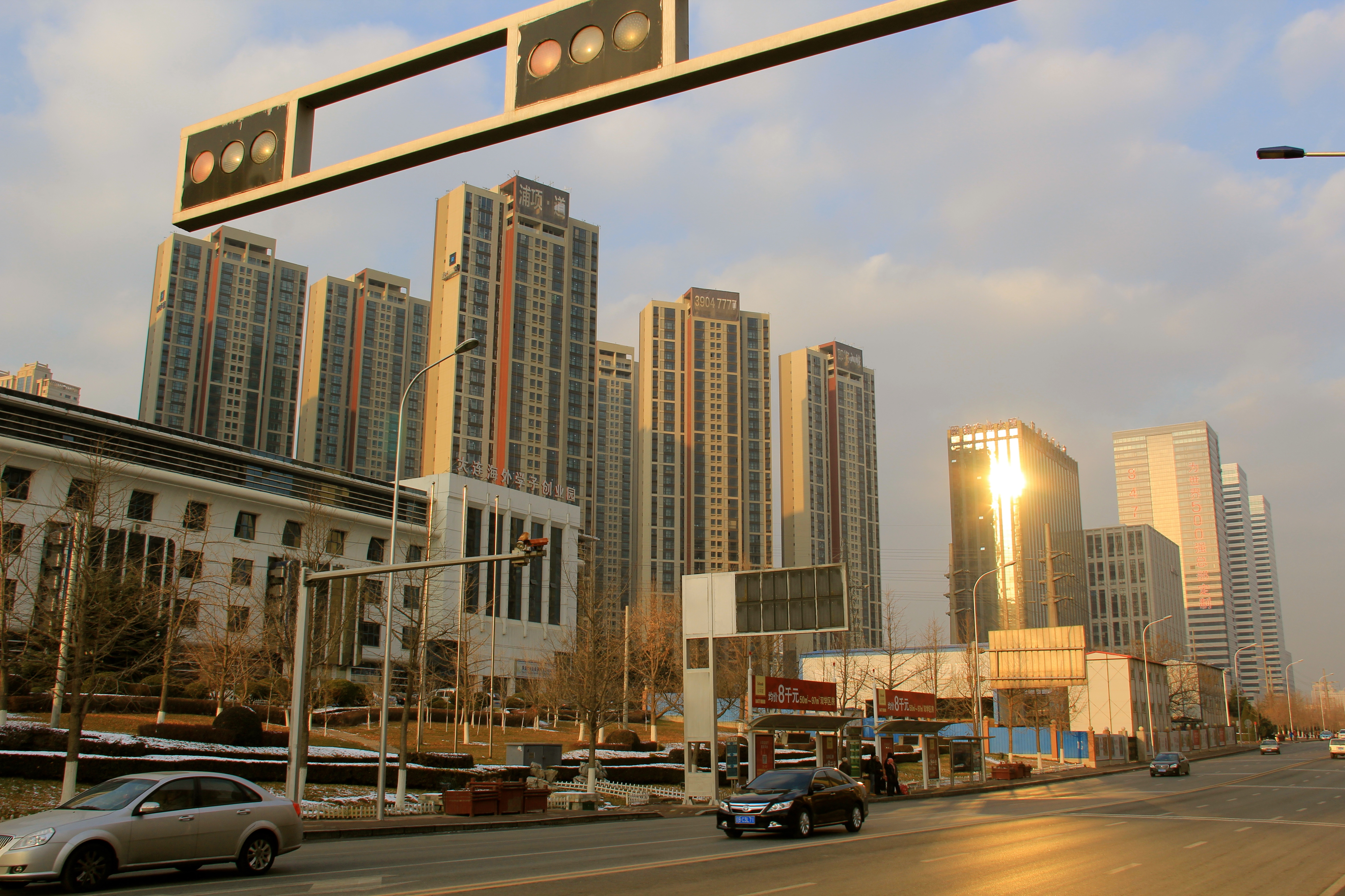 Dalian Hi-Tech Industrial Zone, Dalian, China